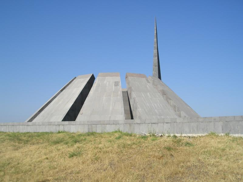 Tsitsernakaberd Armenian Genocide Memorial in Armenia